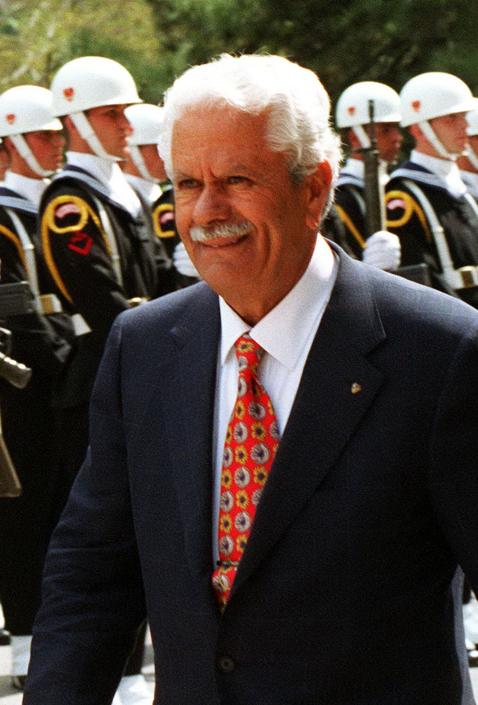 İsmet Sezgin